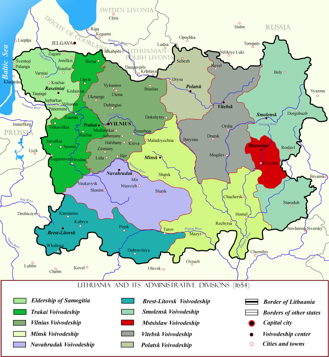 Mstsislaw Voivodeship (red) within Lithuania in the 17th century